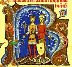 Solomon of Hungary et David of Hungary